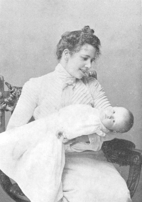 Photograph of the Finnish soprano Elin Fohström-Tallqvist (1868–1949) alias Elina Vandár with her daughter Inger.